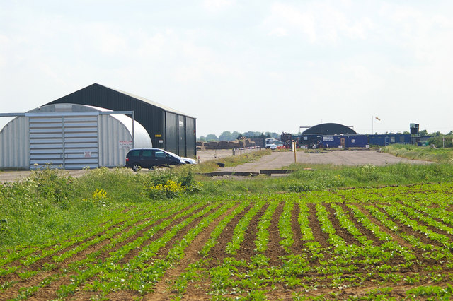 Hibaldstow Airfield. Picture taken looking South from South Carr Road. These buildings house Target Skysports and parachutists were seen descending.